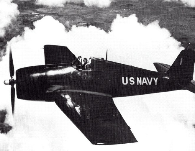 A Grumman F6F-5 Hellcat of the U.S. Navy flight demonstration team Blue Angels in 1946.